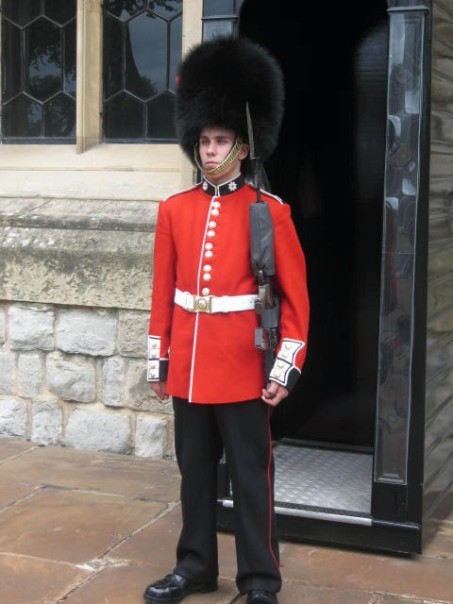 A Coldstream Guardsman at the Tower of London, London, England. Intended for use on Coldstream Guards, Tower of London, and other London-related or guard-related articles